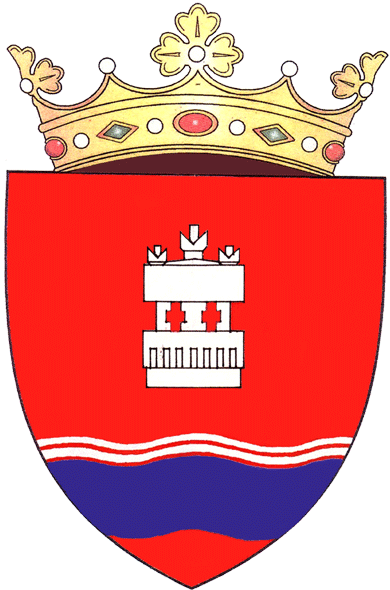 Coats of arms of the Criuleni Raion (District)